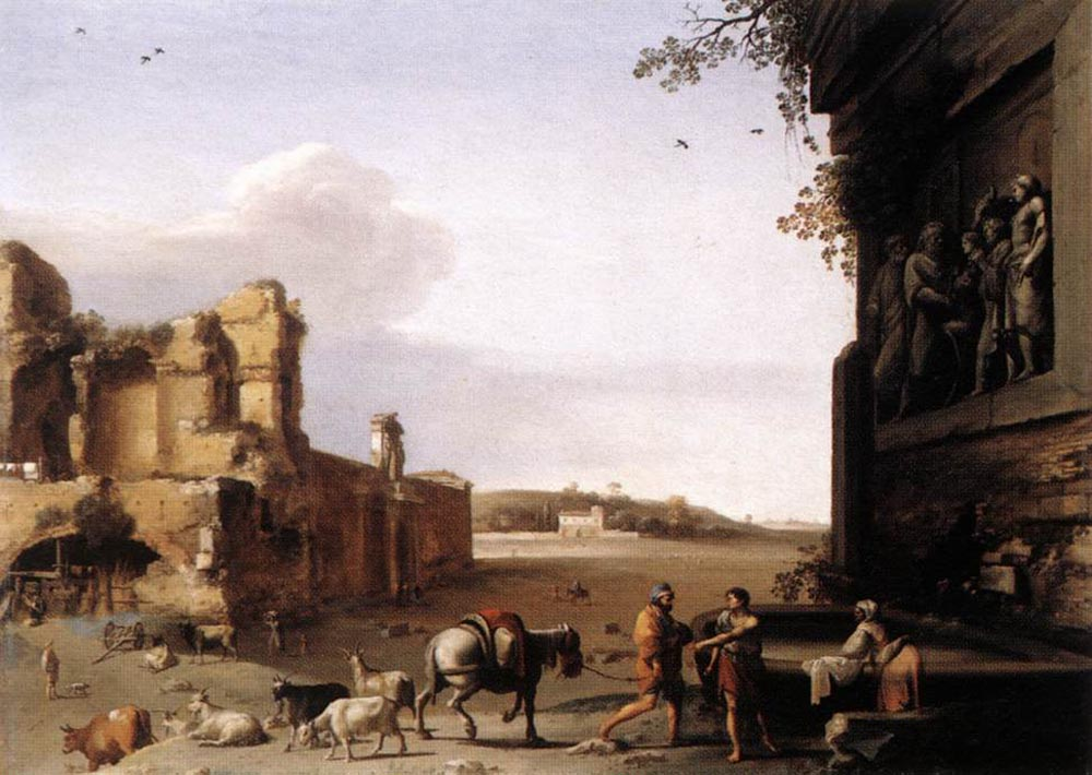 Ruins of Ancient Rome